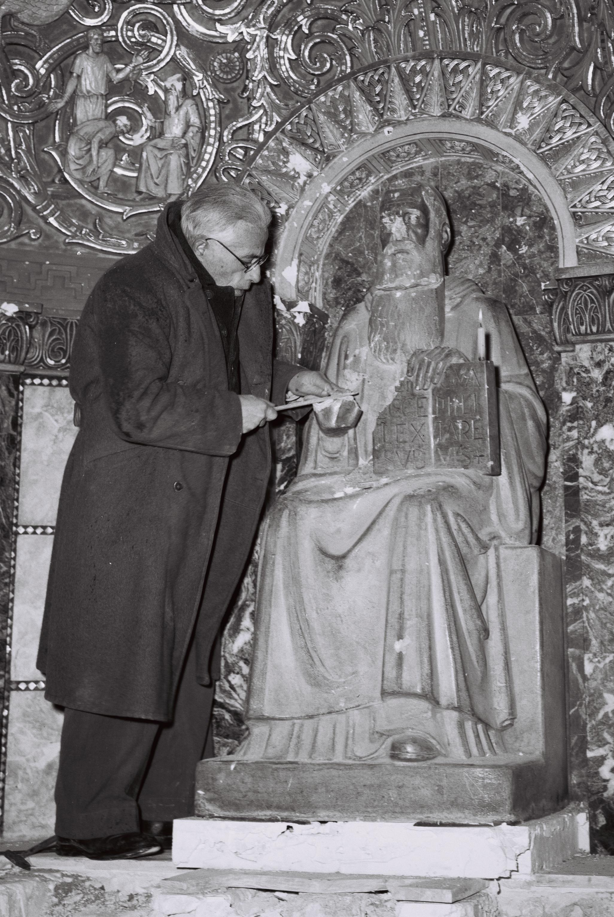 AN IDF NAHAL DELEGATION WINS THE ANNUAL 4 DAY MARCH HELD IN THE NETHERLANDS.